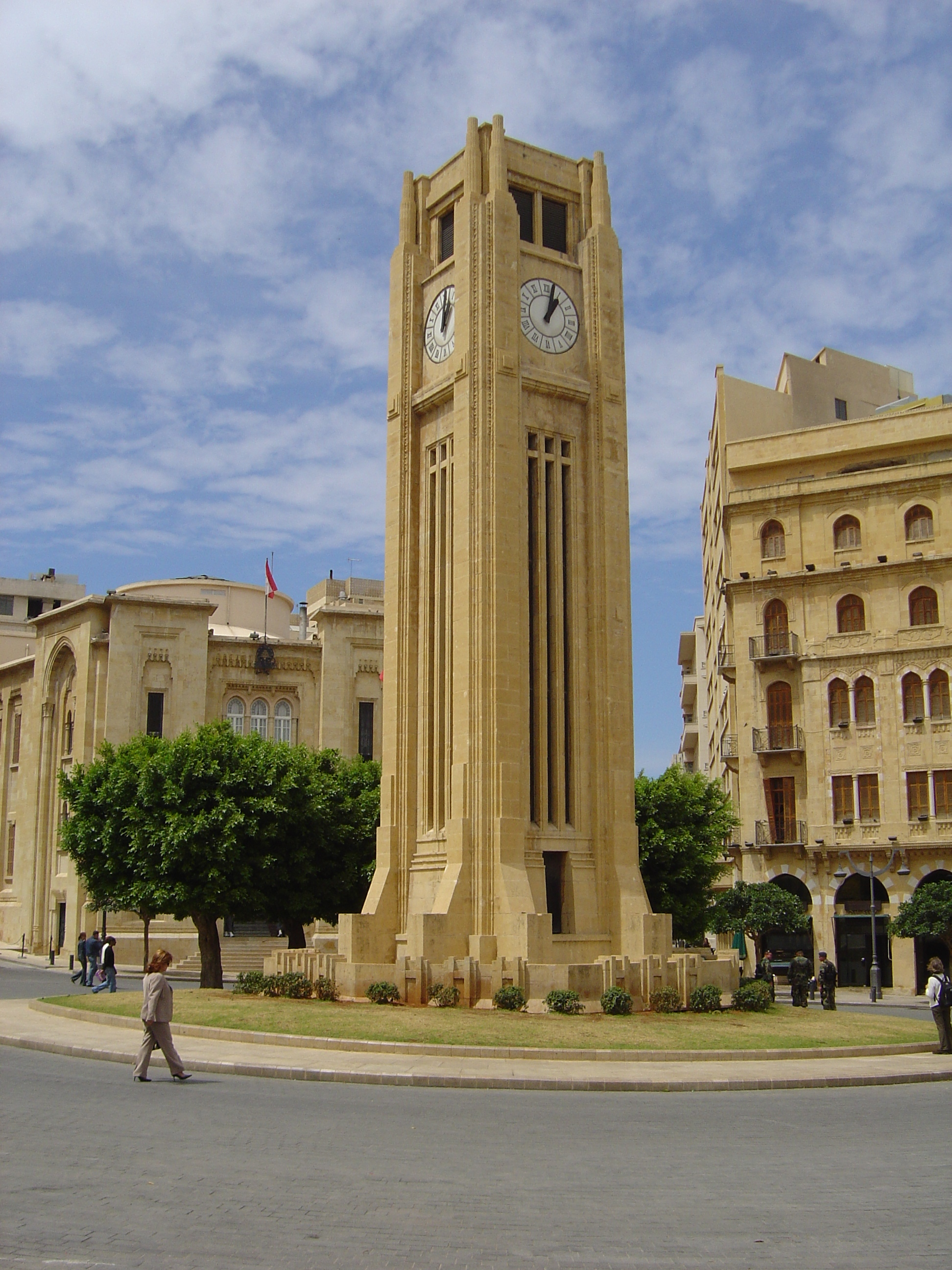 Place de l' Etoile in Beirut